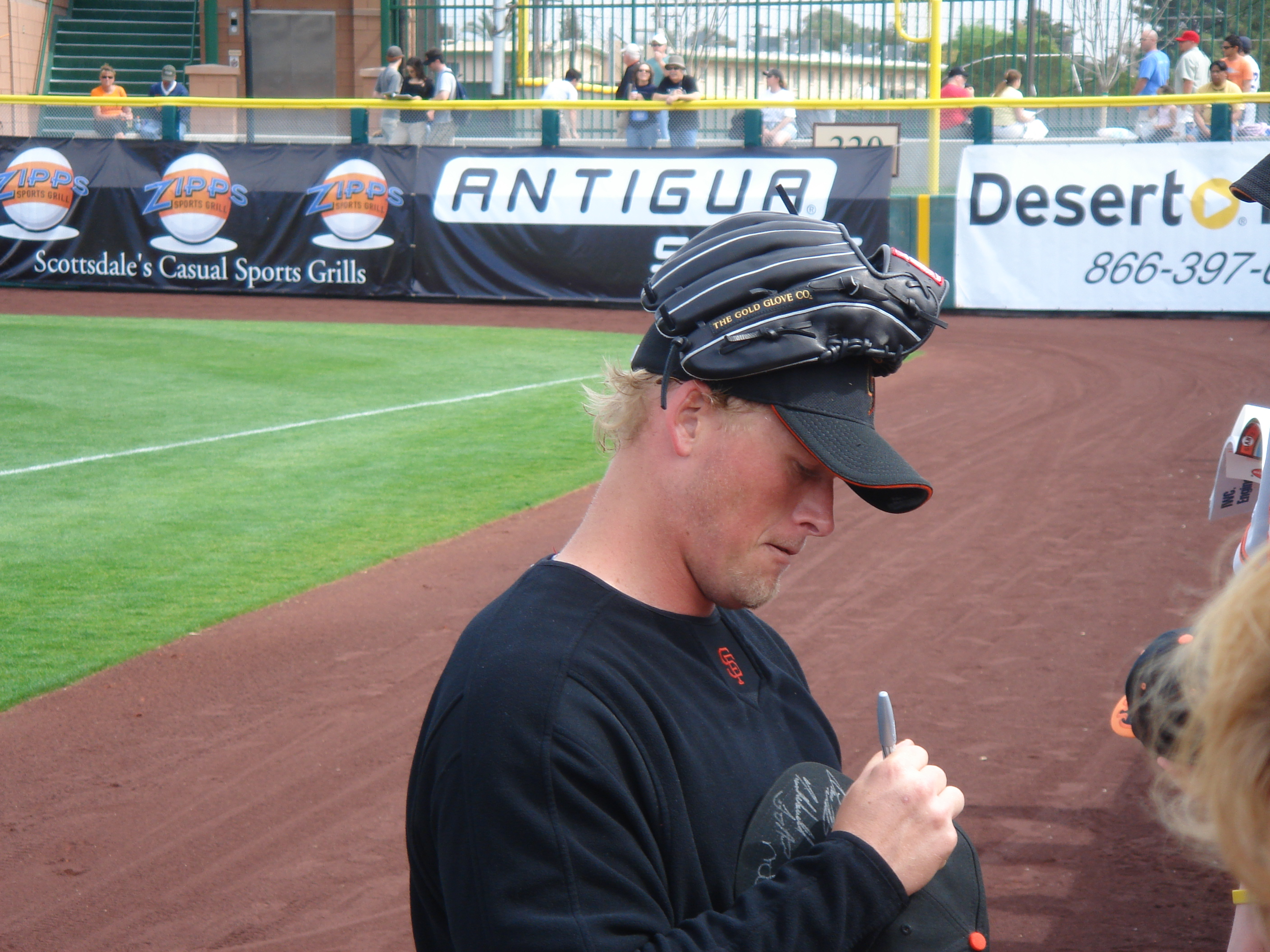 Spring Training 2006, Scottsdale Arizona. 05:53, 5 July 2008 . . Ghanarhea . . 2,816×2,112 (2.61 MB)